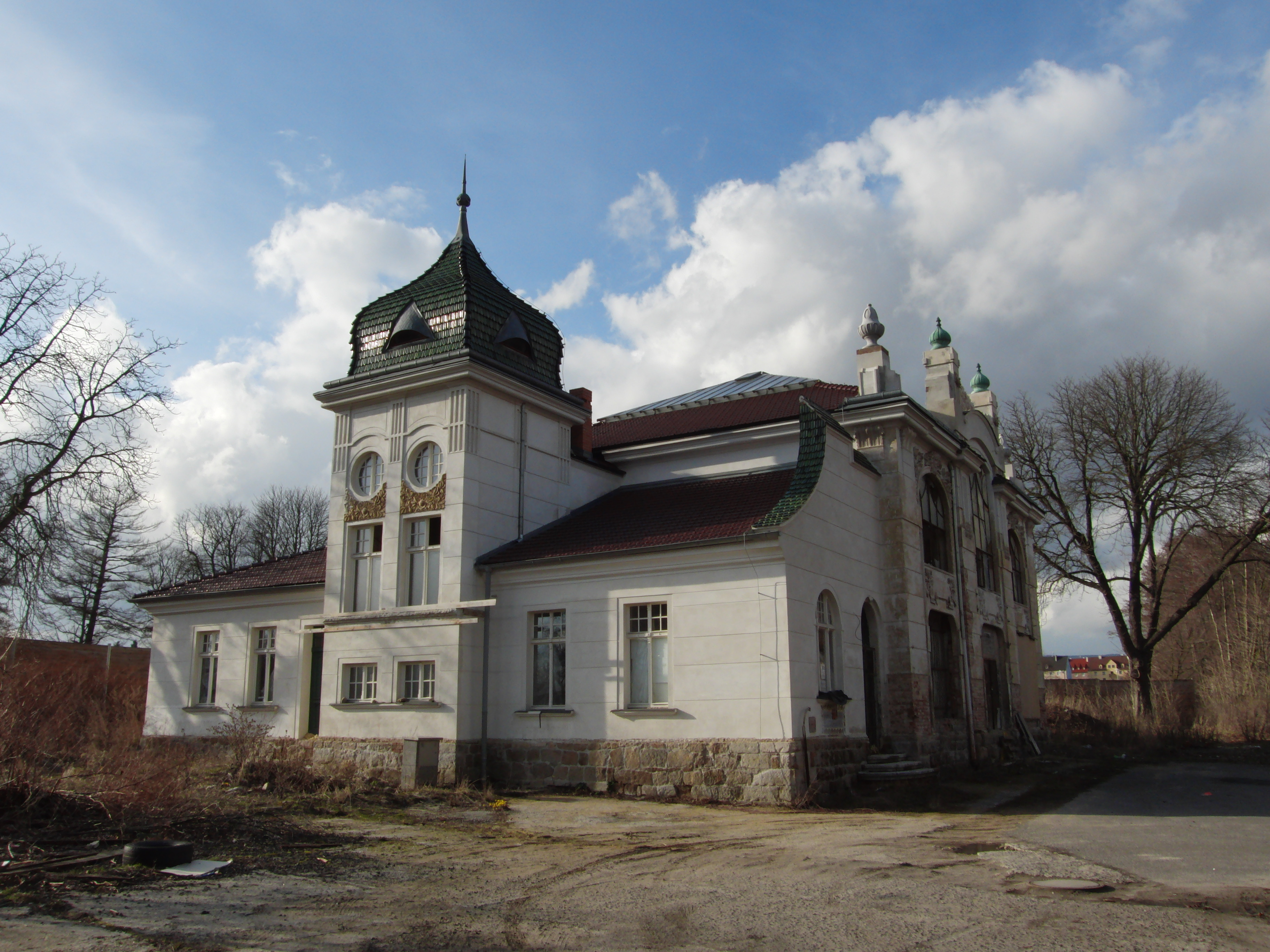 Building of the former sample room in former Knoll's ceramics factory in Rybáře, Karlovy Vary, cultural monument